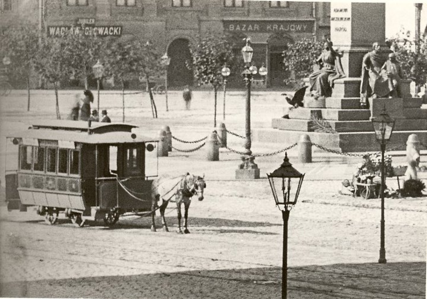 horse tram on main square in Kraków